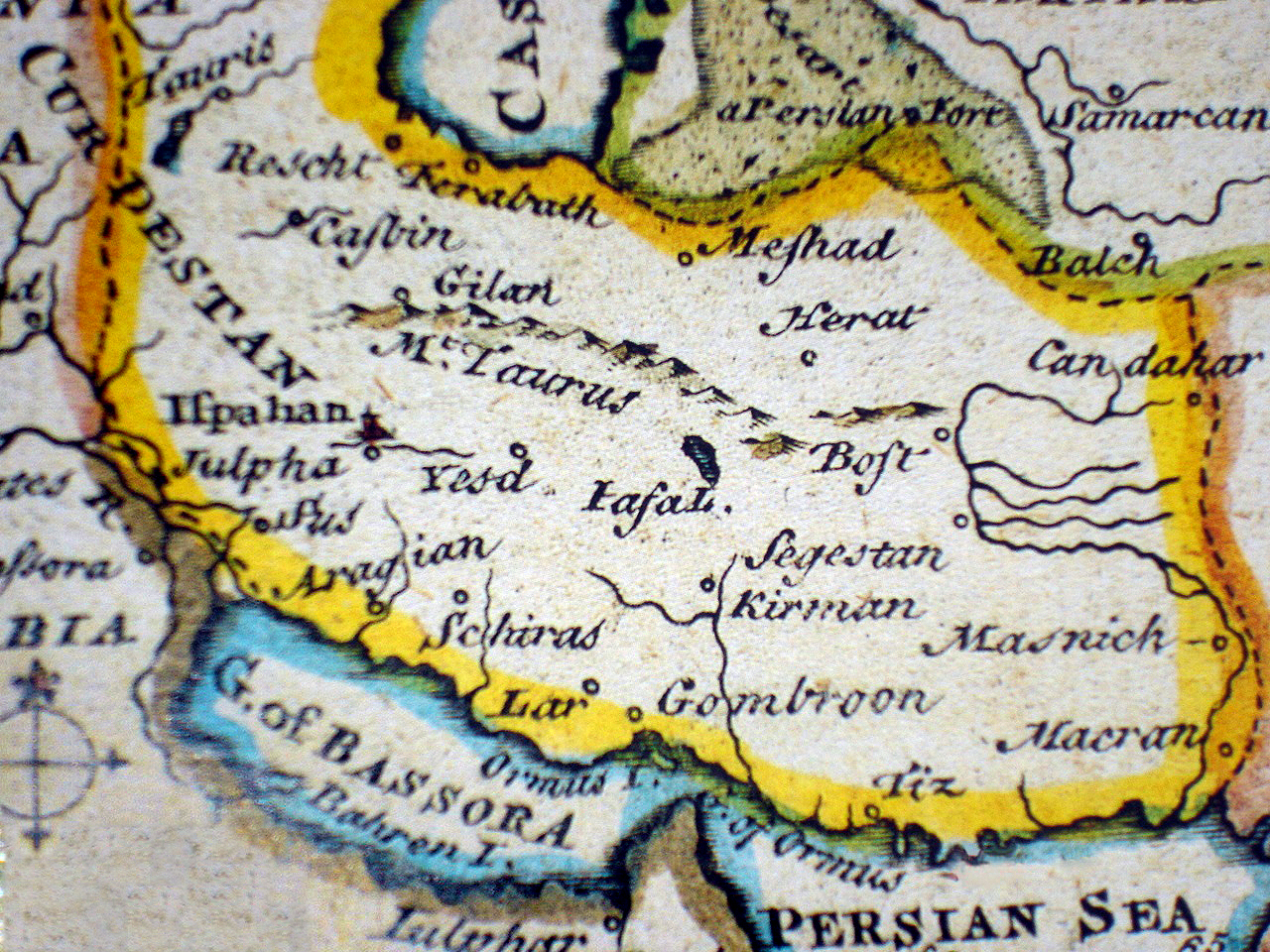 Persian sea or Arabian sea